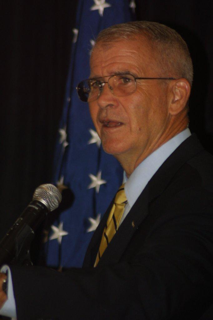 Lt. Col. Oliver North speaks at a dinner in Seattle, Washington on August 14, 2010.